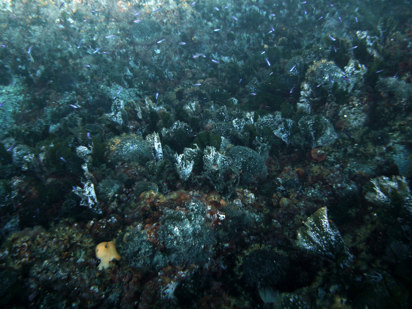 Algae (Codium bursa, Flabellia petiolata?) and young Chromis chromis, diving in Croatia.